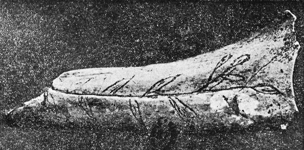 Grotte du Trilobite, Arcy-sur-Cure, Yonne, Burgundy, France. Taken from Abbé Alexandre Parat, Les Grottes de la Cure (côte d'Arcy) : La grotte du Trilobite, plate 5 (between pp. 32-33). Deer bone (femur) with engraving of a branch with leaves (very rare ; prehistoric engraving and pictures usually represent animals / humans, not plants).